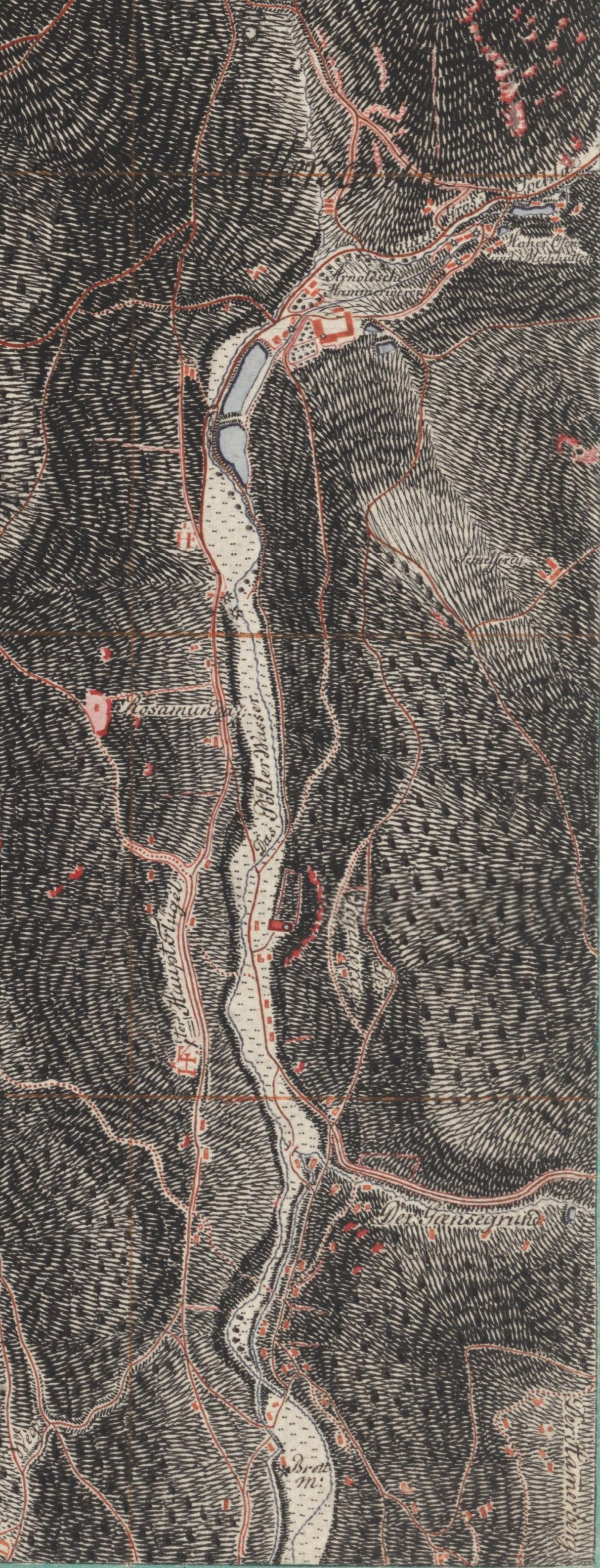 Map of lower part of Rittersgrün, Erzgebirge.